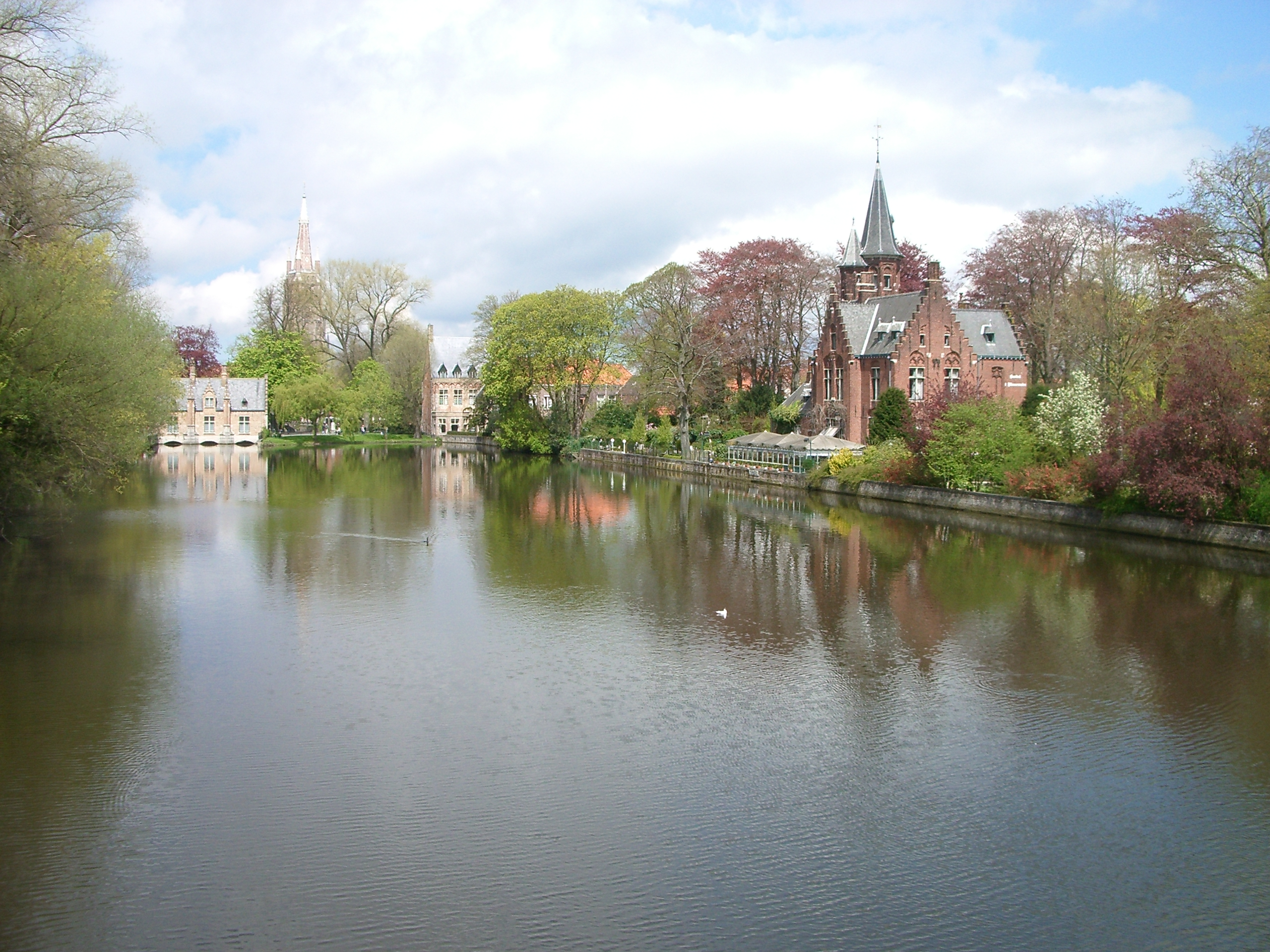 The Minnewater in Bruges, Belgium - personal photo - 30.04.2006